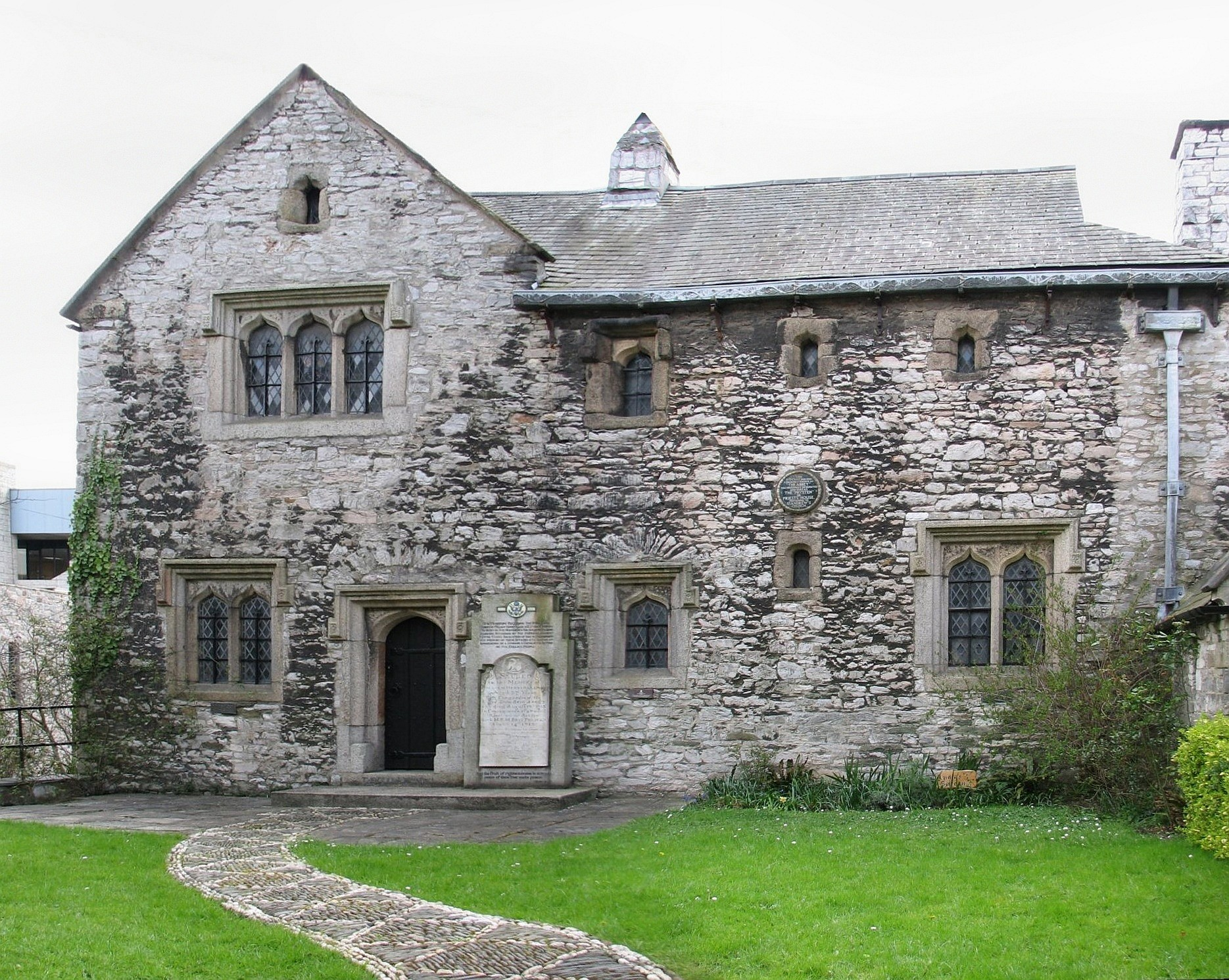 Part of the Priests or "Prysten" house adjacent to St Andrew's Church, Plymouth, Devon, England.